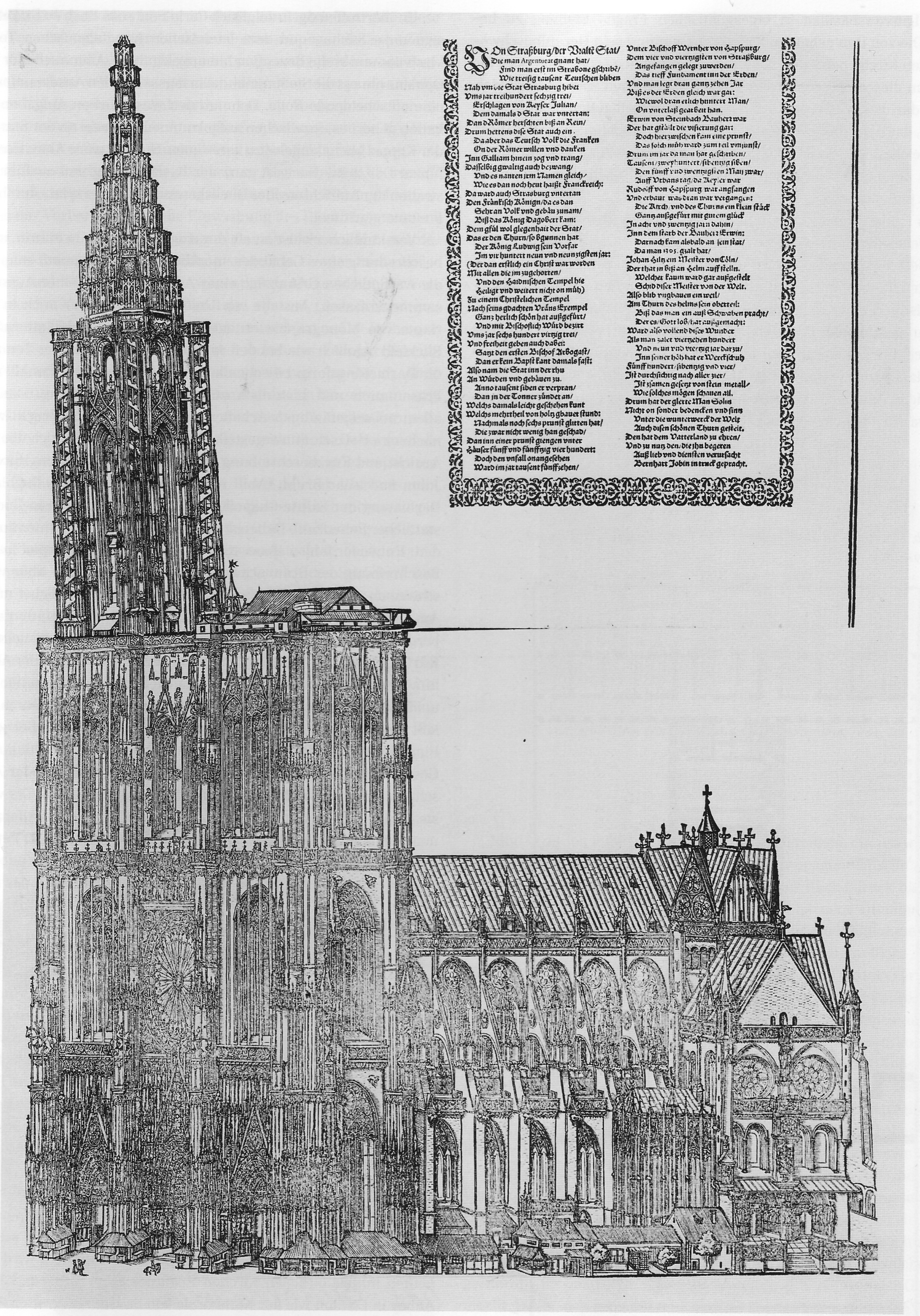 Strasbourg cathedral. Woodcut, 1574, published by Bernard Jobin, Strasbourg. With accompanying poem or rhymed history (see Wikisource).